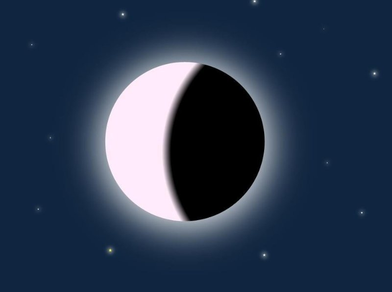 Our Moon Life Logo